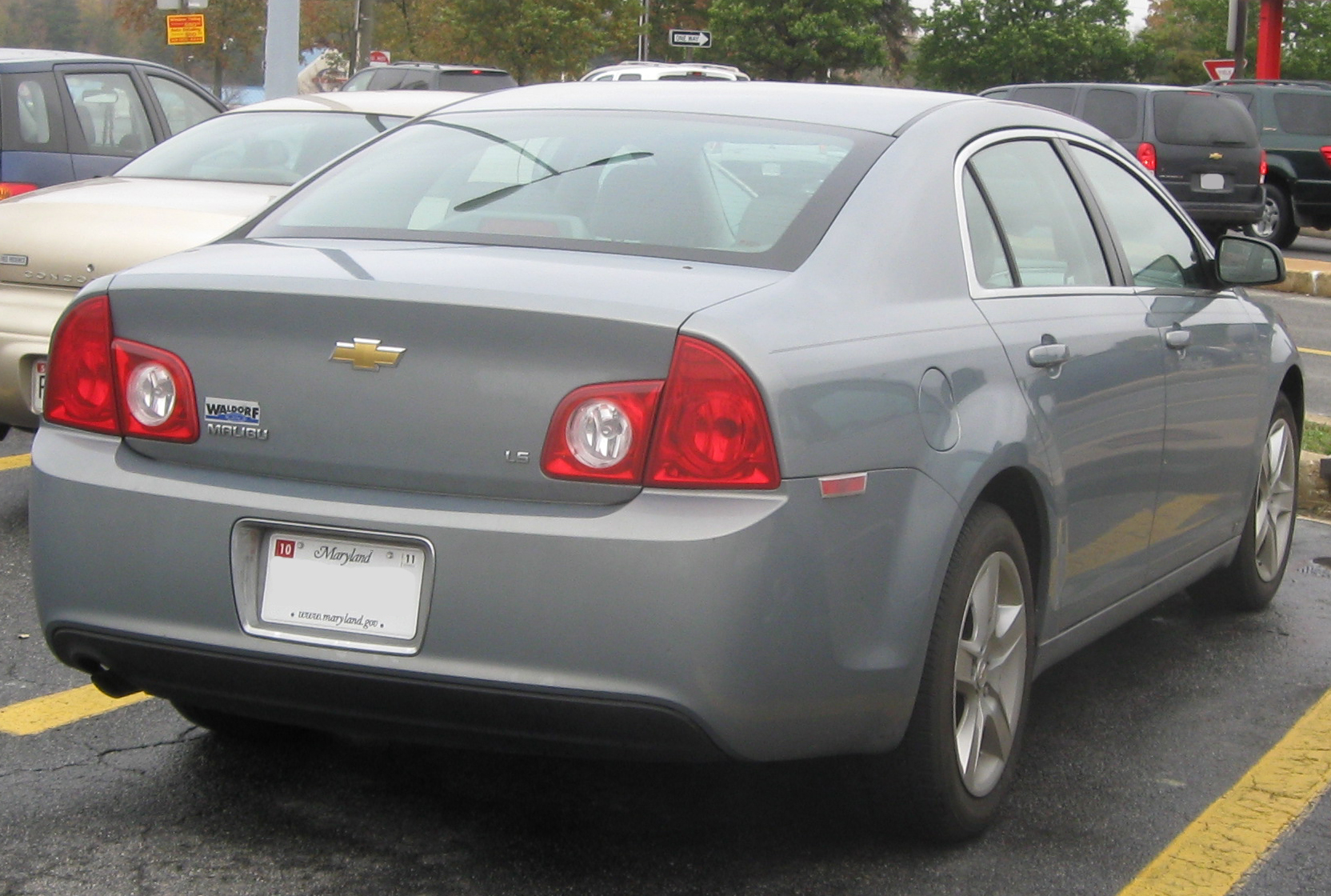 2008-2010 Chevrolet Malibu photographed in Waldorf, Maryland, USA.